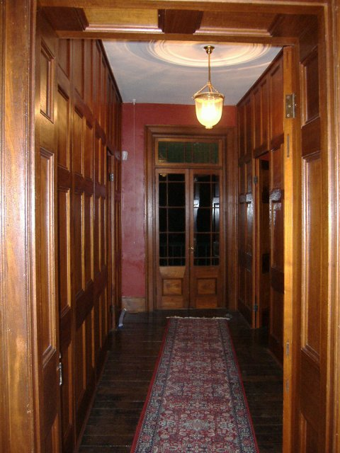 Englefield, East Maitland